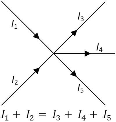 A simple example of a junction demonstrating Kirchoff's first law